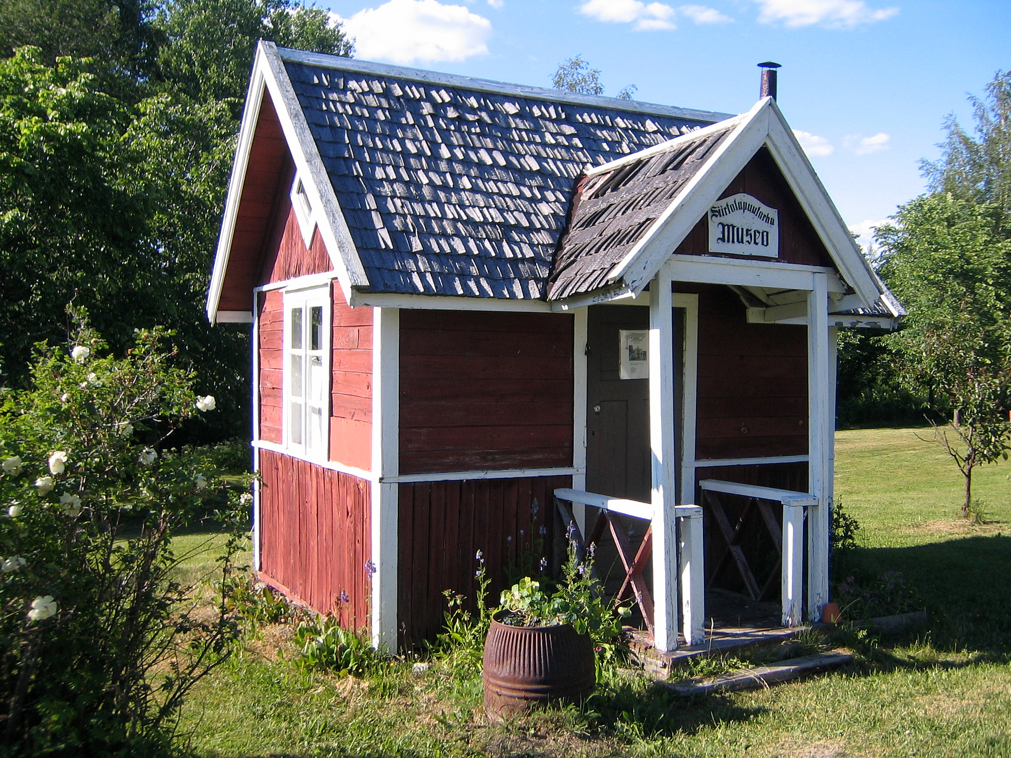 This old hut is exhibited in the Niihama Allotment Garden Museum, Tampere, Finland. It dates from the 1920's.